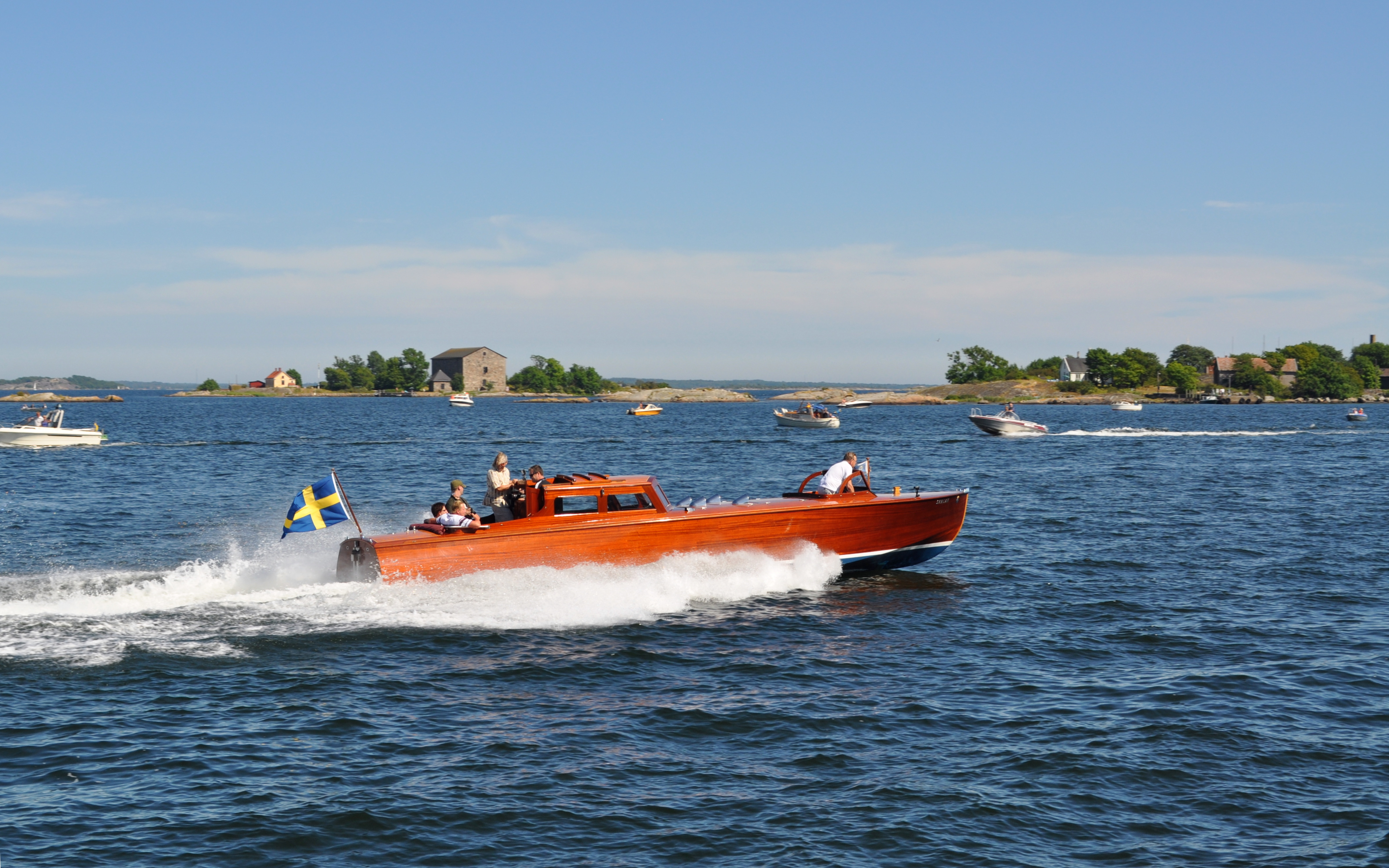 Motorboat replica after Ivar Kreugers M/Y Svalan